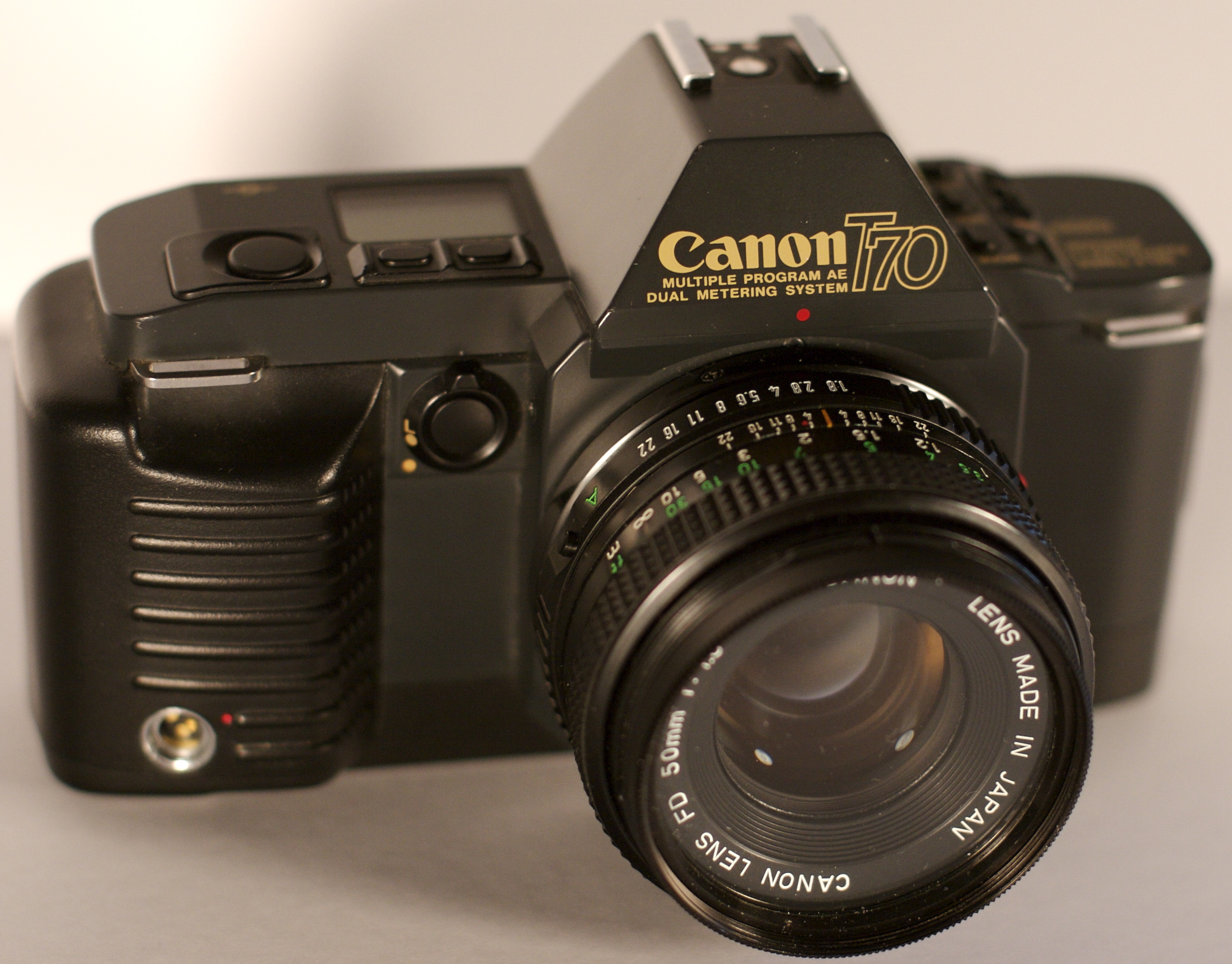 The Canon T70, a 35mm SLR camera introduced in 1984.